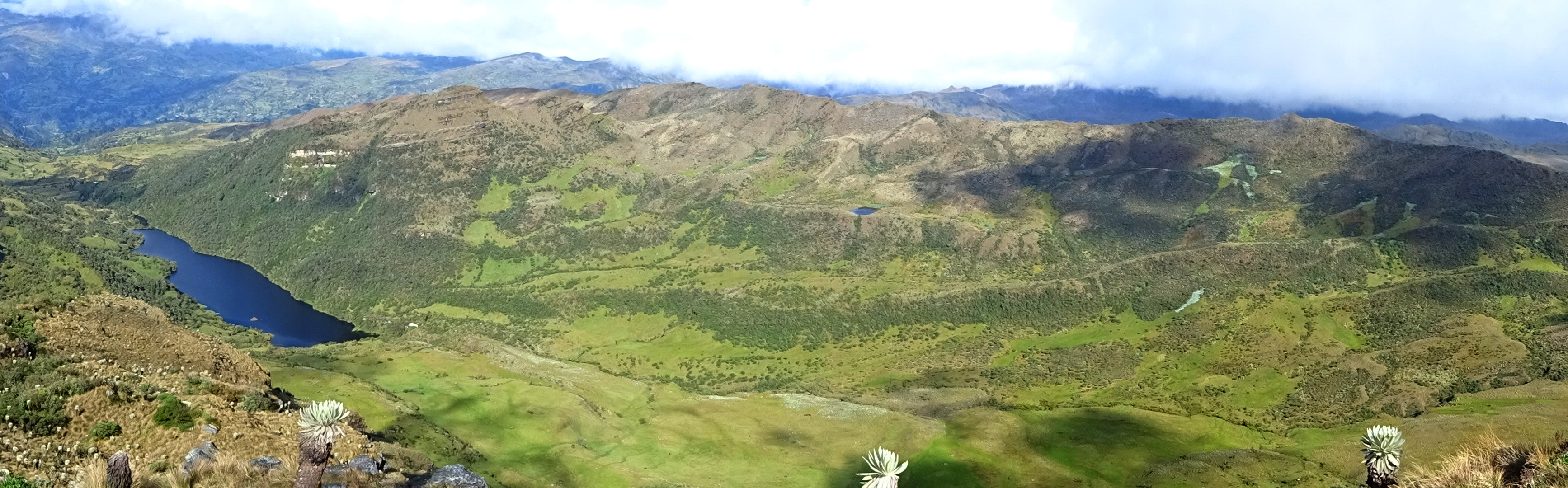 Panorama of "Laguna Negra" and feeder creeks, Páramo de Ocetá, Boyacá, Colombia